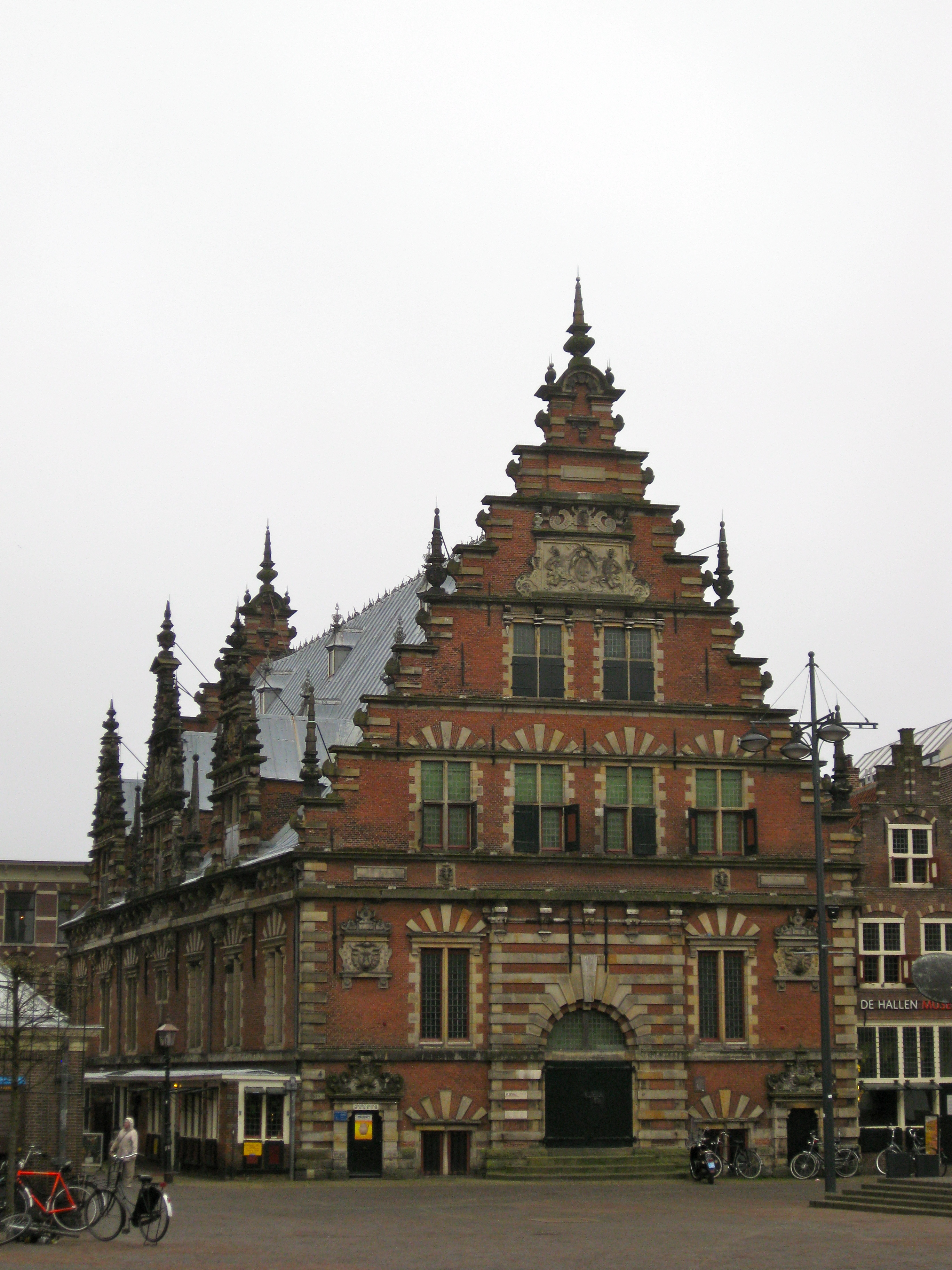 Haarlem, Grote Markt, Lieven de Key, Dutch Renaissance